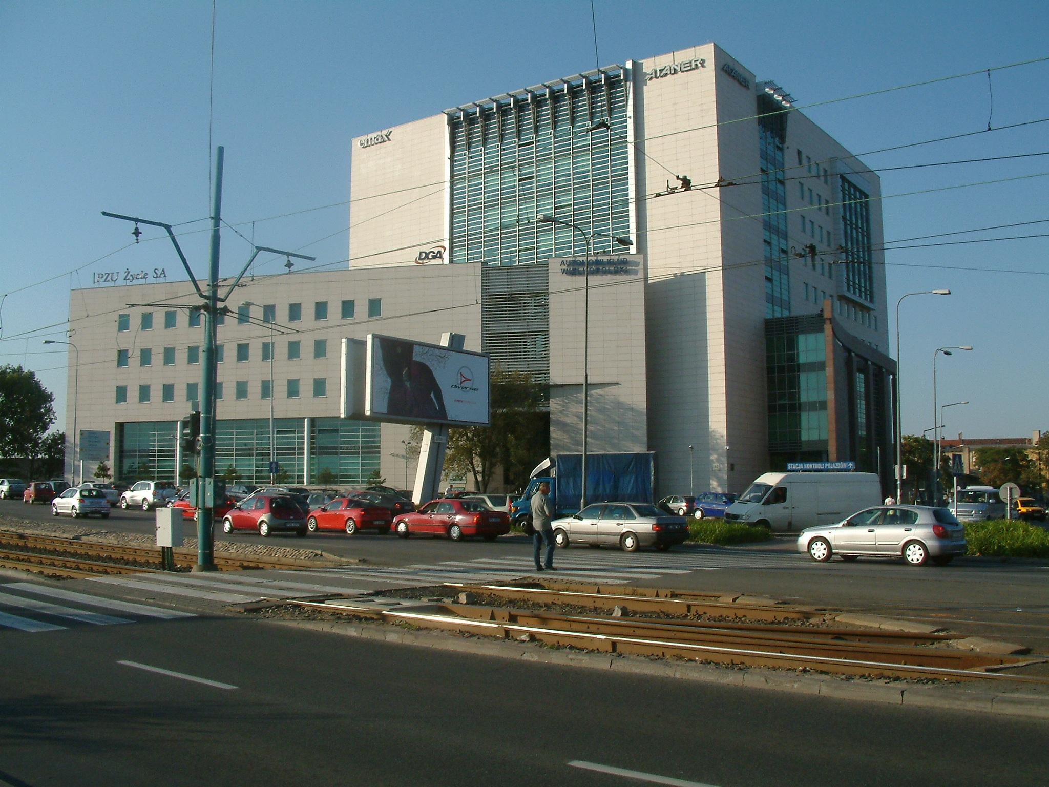 Building of Delta in Poznań